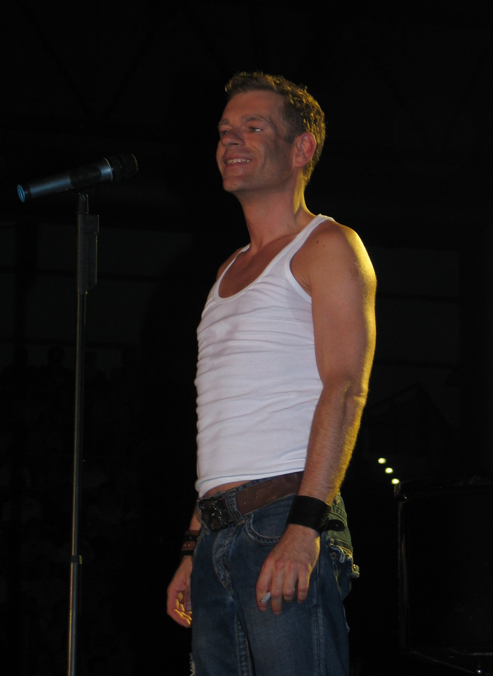 Peter Plate of the band Rosenstolz live in Leipzig/Germany on 6th May 2006